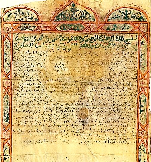 Oldest known and documented MD degree delivered in the world from University of al-Qarawiyyin in Fez, Morocco. It has been awarded to the Doctor Abdellah Ben Saleh Al Koutami in 1207 AD (603 of Islamic Calendar) for practice of both medicine and veterinary.